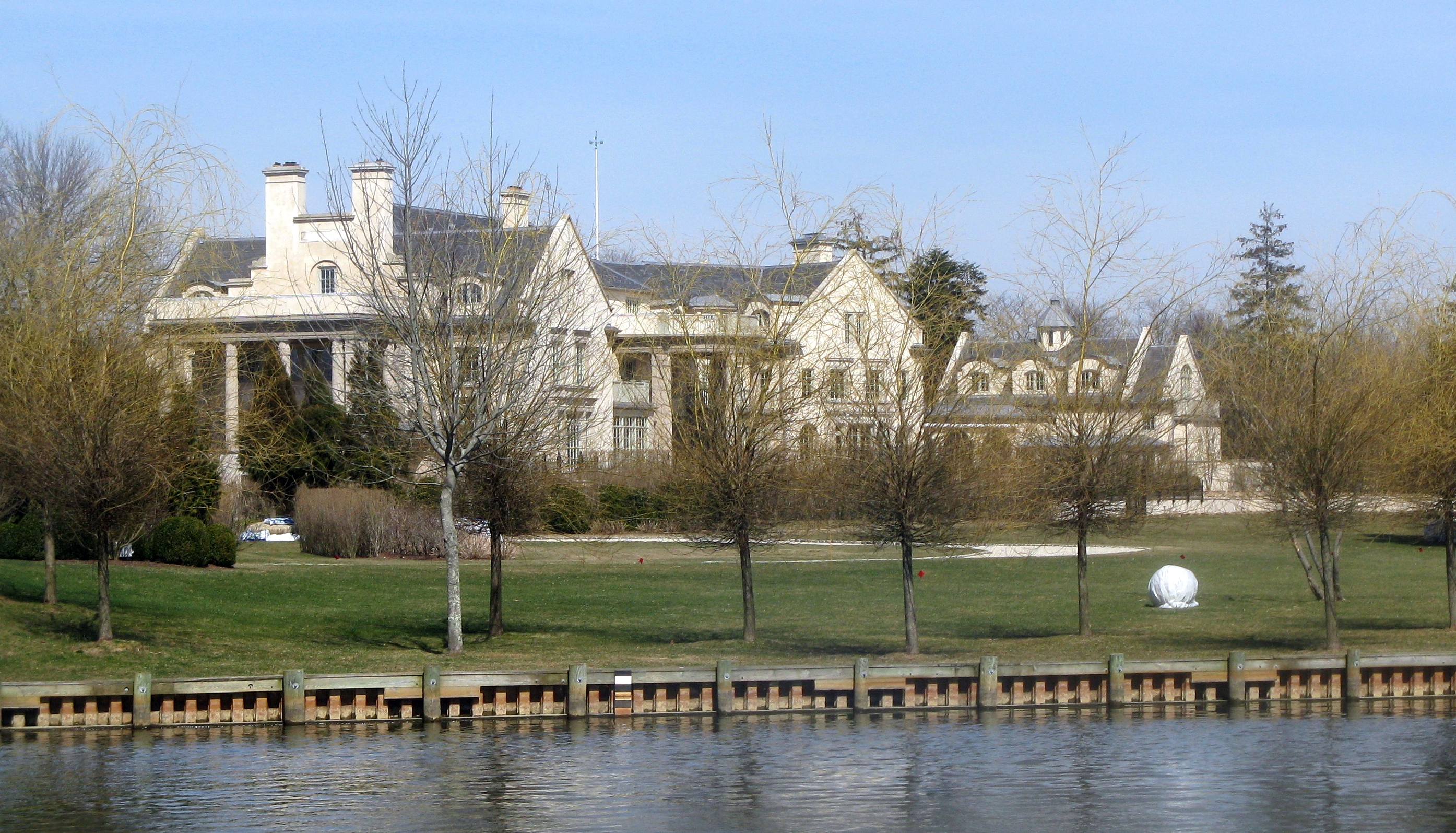 Villa Maria in Watermill, New York.